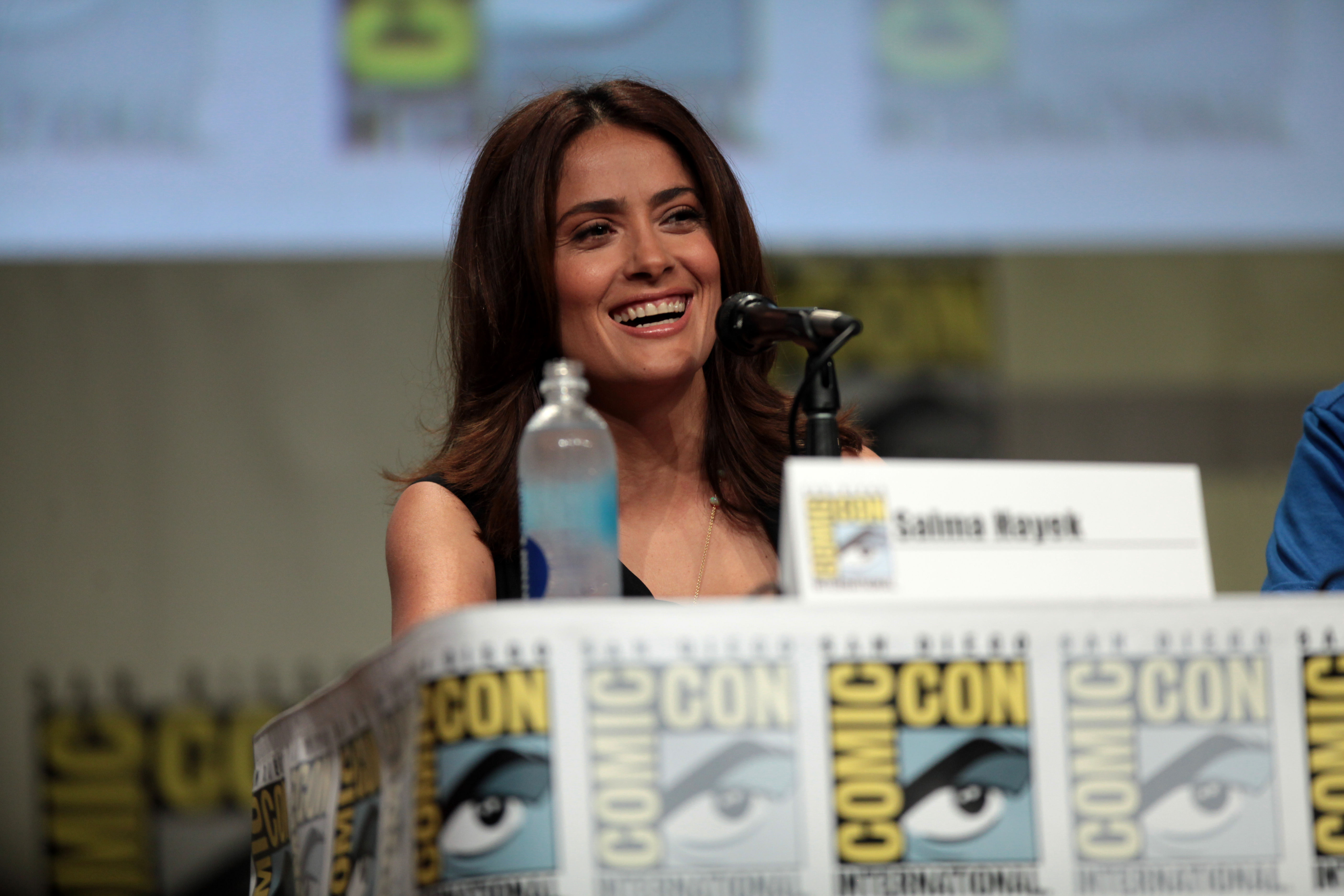 Salma Hayek speaking at the 2014 San Diego Comic Con International, for "Everly", at the San Diego Convention Center in San Diego, California.